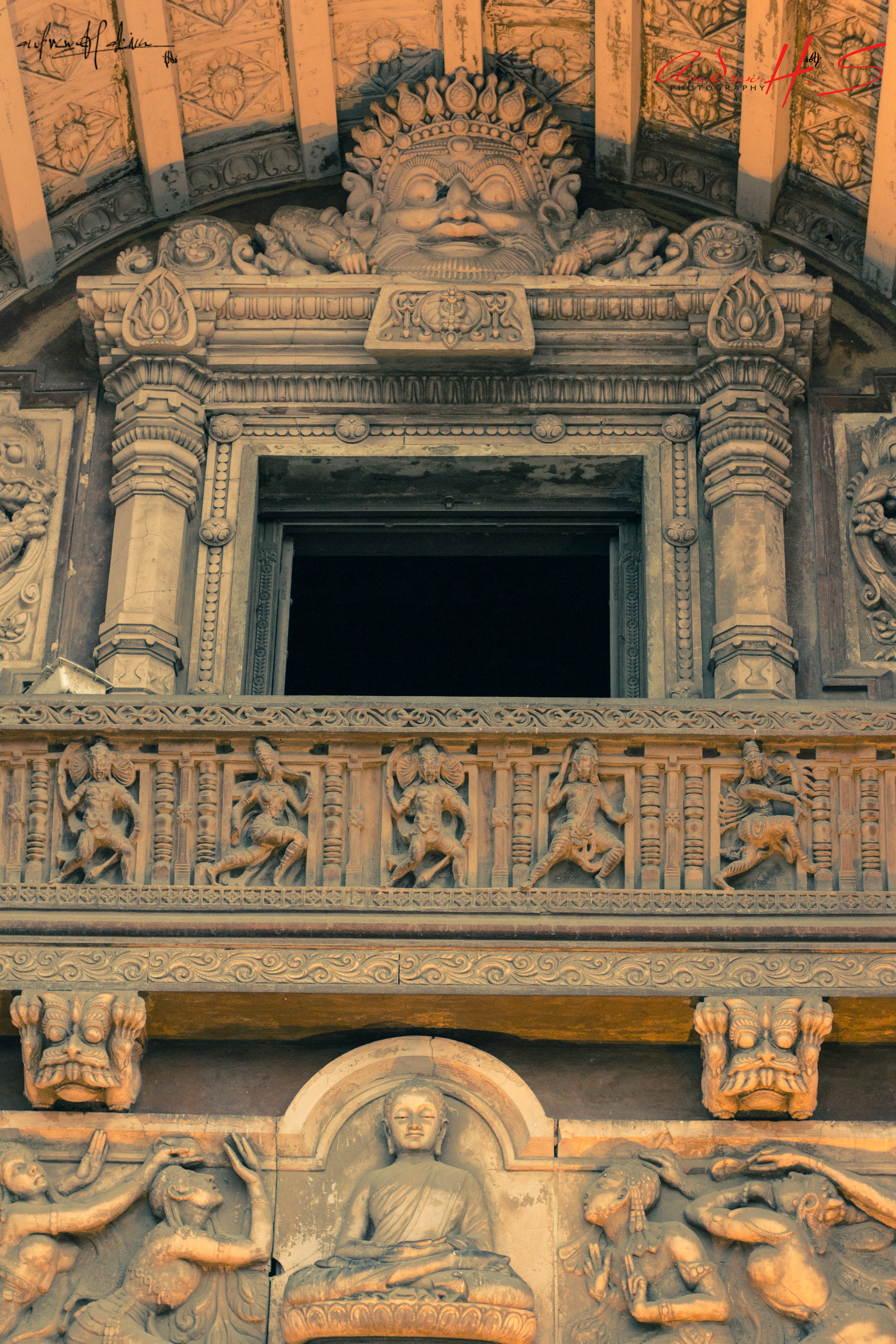 the baron empain palace